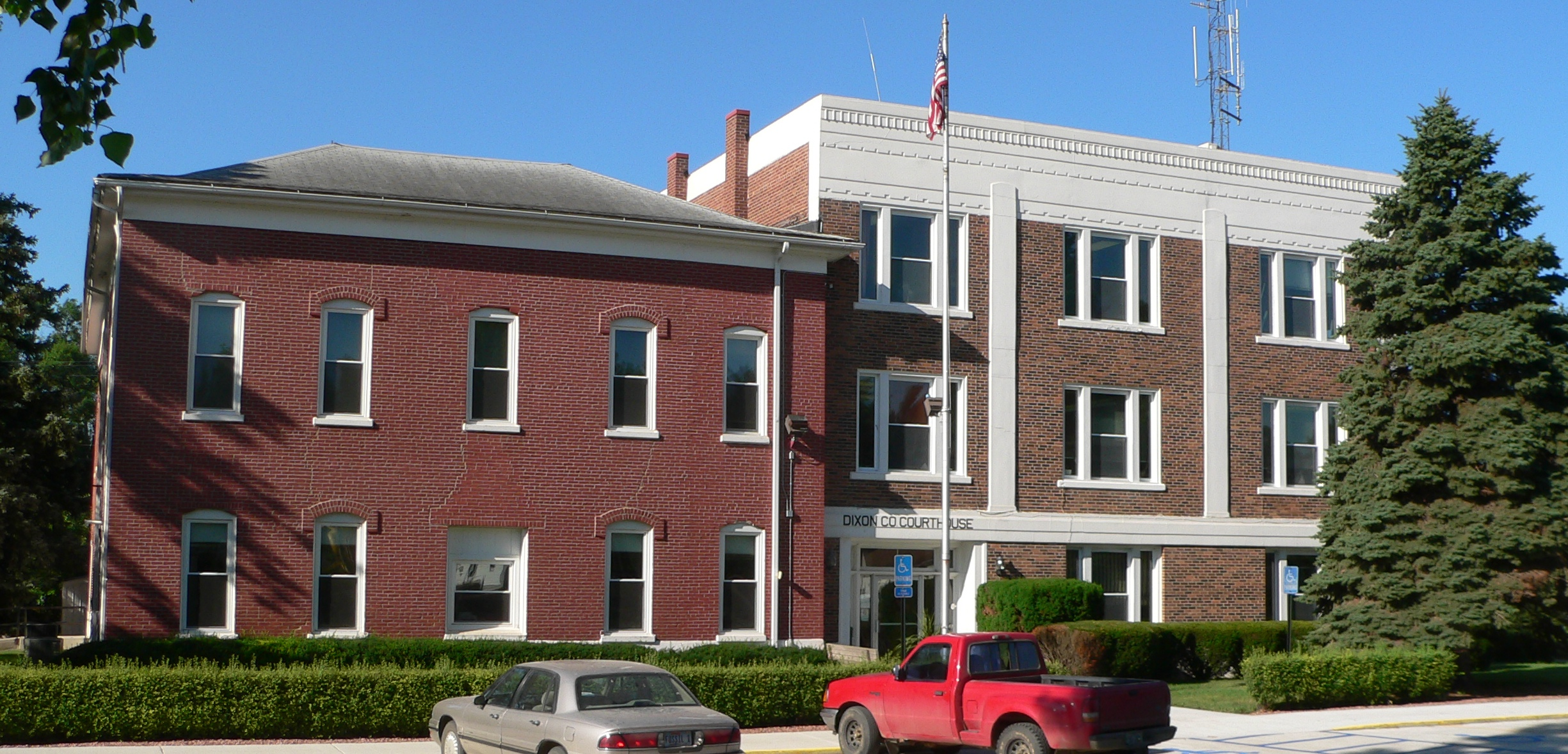 Dixon County Courthouse in Ponca, Nebraska; seen from the north. The Italianate portion at left (east) was built ca. 1883; the Art Deco portion at right (west) was built in 1940. The building is listed in the National Register of Historic Places.